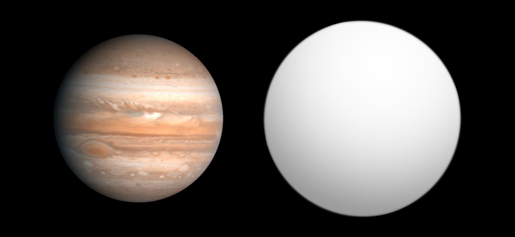 Comparison of best-fit size of the exoplanet WASP-18 b with the Solar System planet Jupiter, as reported in the Extrasolar Planets Encyclopaedia[1] as of 2010-10-03. ↑ Extrasolar Planets Encyclopaedia (2010-09-30). Retrieved on 2010-10-03.